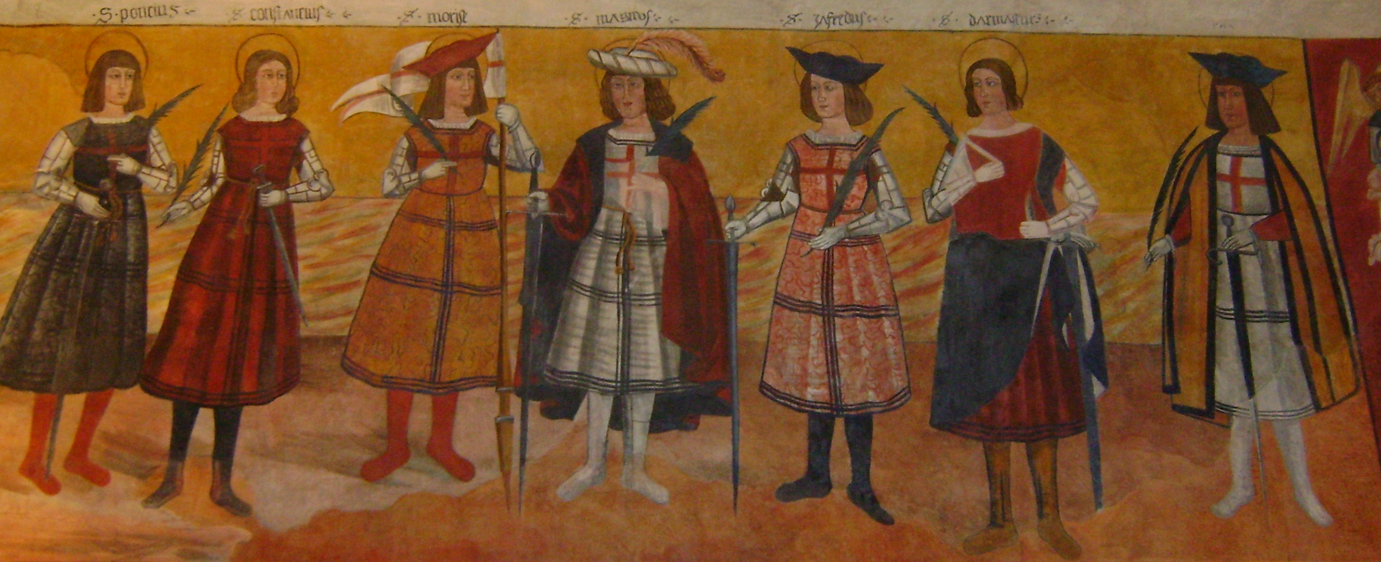 Saint Magnus sanctuary at Castelmagno (Italy): ancient chapel